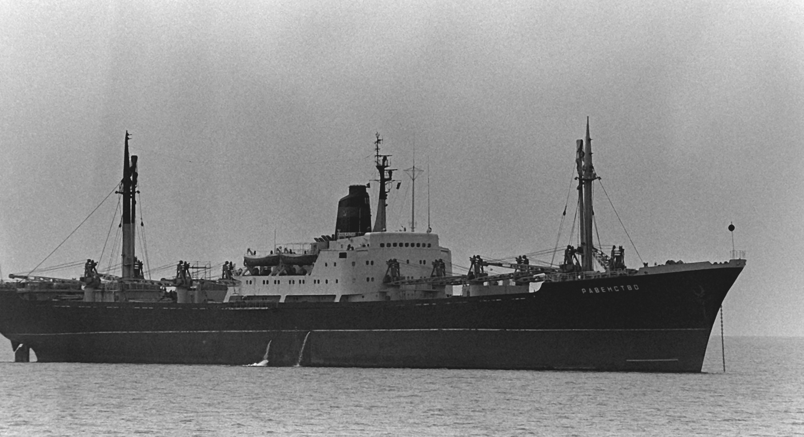 A starboard bow view of the Soviet cargo ship Ravenstvo anchored offshore during exercise Unitas XX.